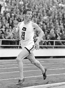 Taisto Mäki becomes the first man to break the 30-minute barrier for the 10,000 m in Helsinki in 1939.